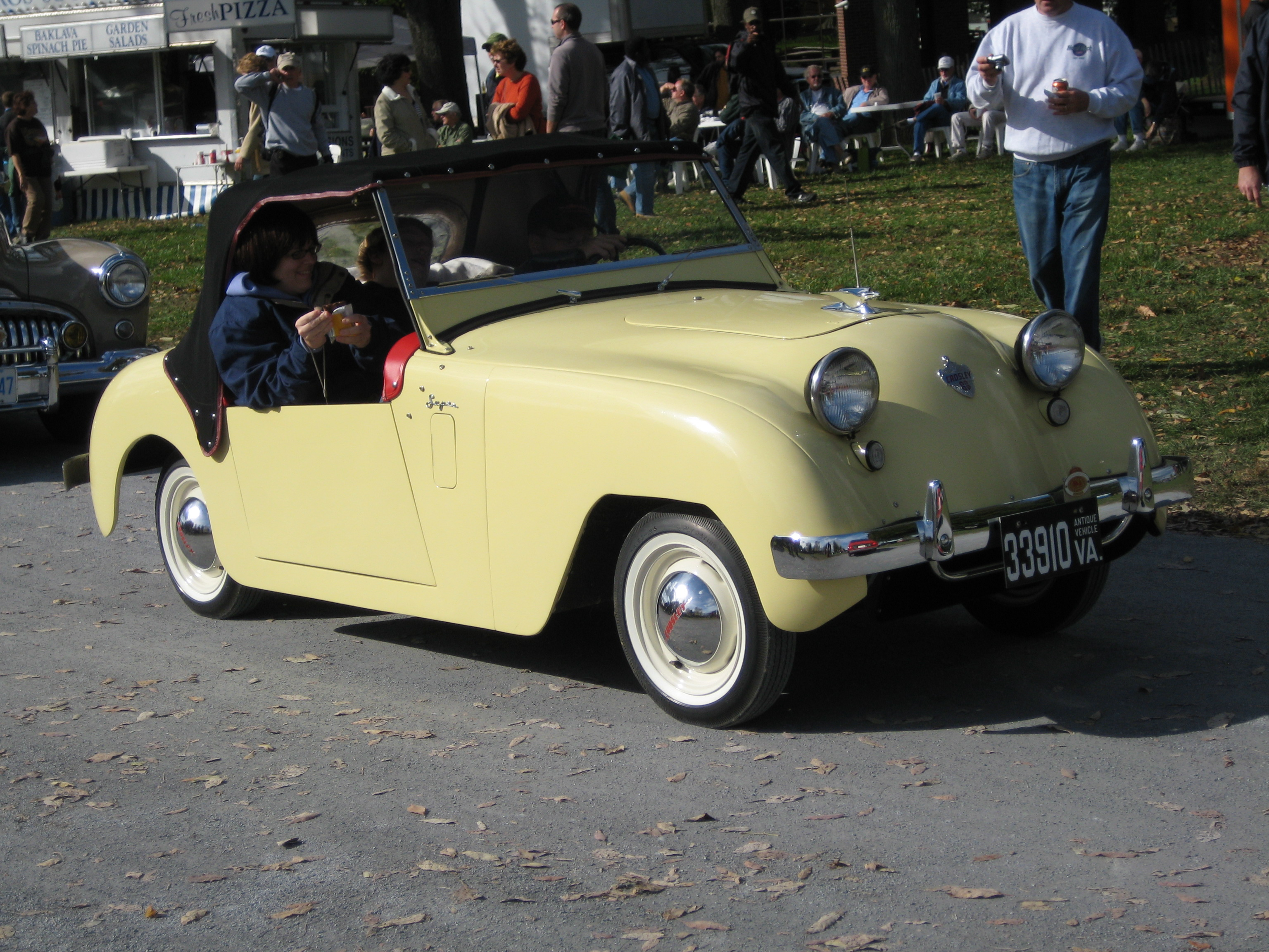 AACA Eastern Region Fall Meet Car Show, Hershey, Pennsylvania October, 2009